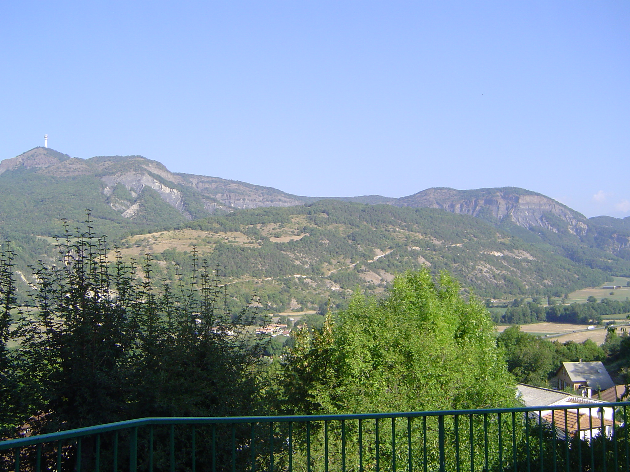 Photo prise à Saint-Étienne-le-Laus